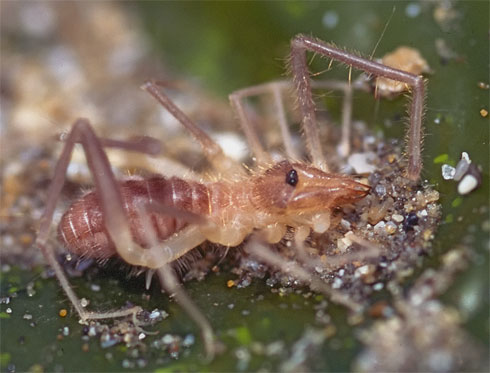 Chinchippus peruvianus (Arachnida: Solifugae: Ammotrechidae) from Paracas Bay, Peru.